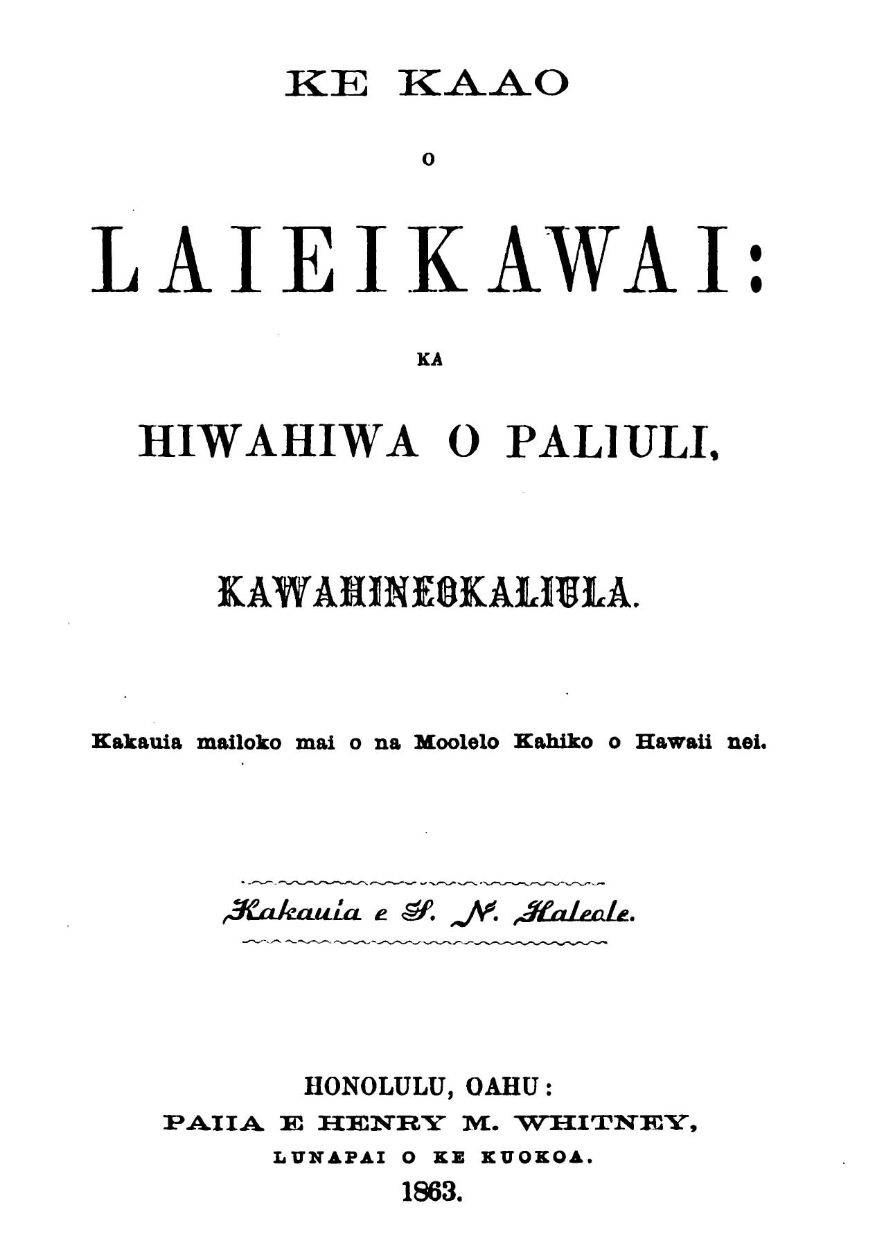 Front cover of Ke Kaao o Laieikawai